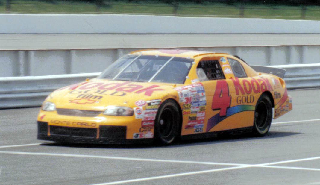 NASCAR driver Sterling Marlin #4 Kodak Chevy Monte Carlo at Pocono in 1997.